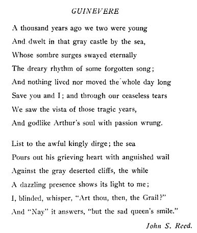 an editor for The Harvard Monthly, this is one of several works by Reed as a student.